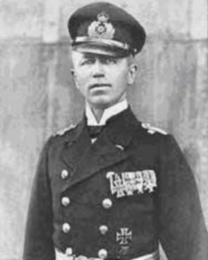 Commander at the airship base in Tønder